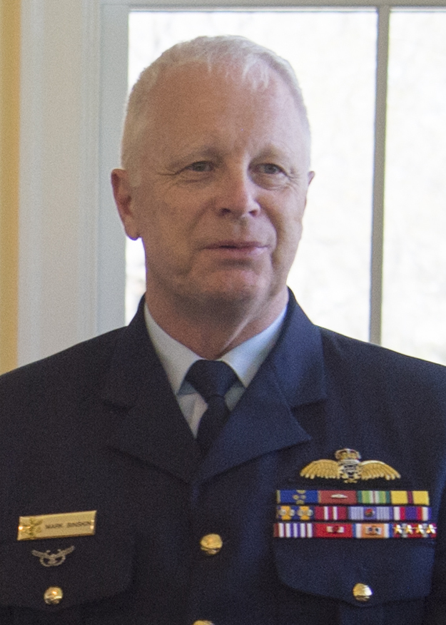 Chairman of the Joint Chiefs of Staff Gen. Joseph F. Dunford, Jr., met with his Australian counterpart Chief of the Defence Force Air Chief Marshal Mark Binskin, in Washington D.C., April 20, 2018. The two leaders discussed a wide range of issues, including the global threat of terrorism and security in the Pacific region. The visit also served to strengthen the U.S.-Australia alliance as the two countries increase collaboration in counter-terrorism efforts and regional capacity building among other areas of mutual interest. General Dunford hosted an Armed Forces Full Honors Arrival ceremony at Joint Base Myer-Whipple Field following the meeting, where he presented Air Chief Marshal Binskin with the Legion of Merit for his dedicated support of the U.S.-Australia alliance, which directly led to improved security in the Indo-Pacific theater. The U.S. and Australia are celebrating 100 years of "Mateship" and together form an alliance that plays a critical role in maintaining peace and stability in the region. (DOD Photo by Navy Petty Officer 1st Class Dominique A. Pineiro)